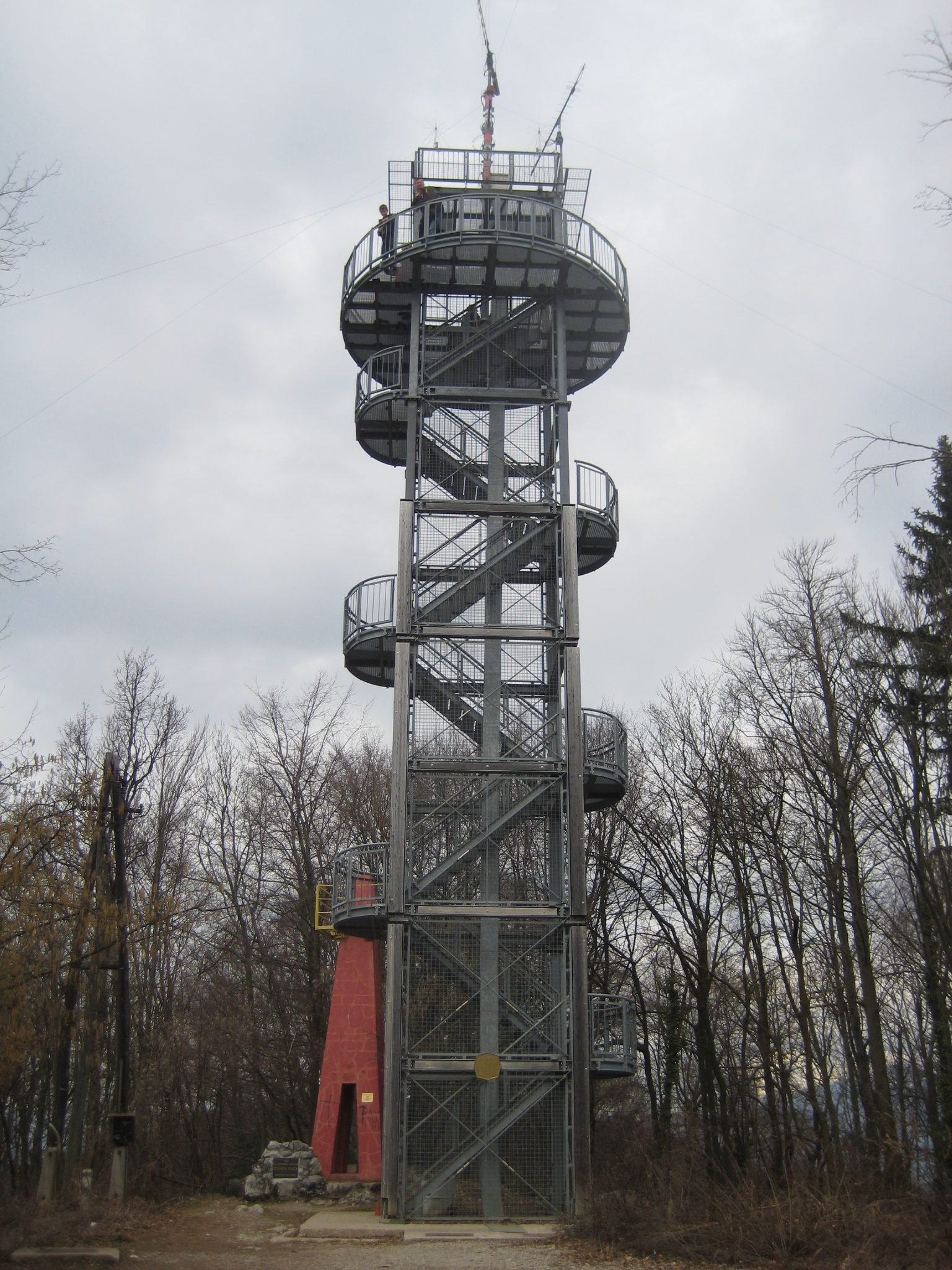 Rašica, tower, Slovenia.